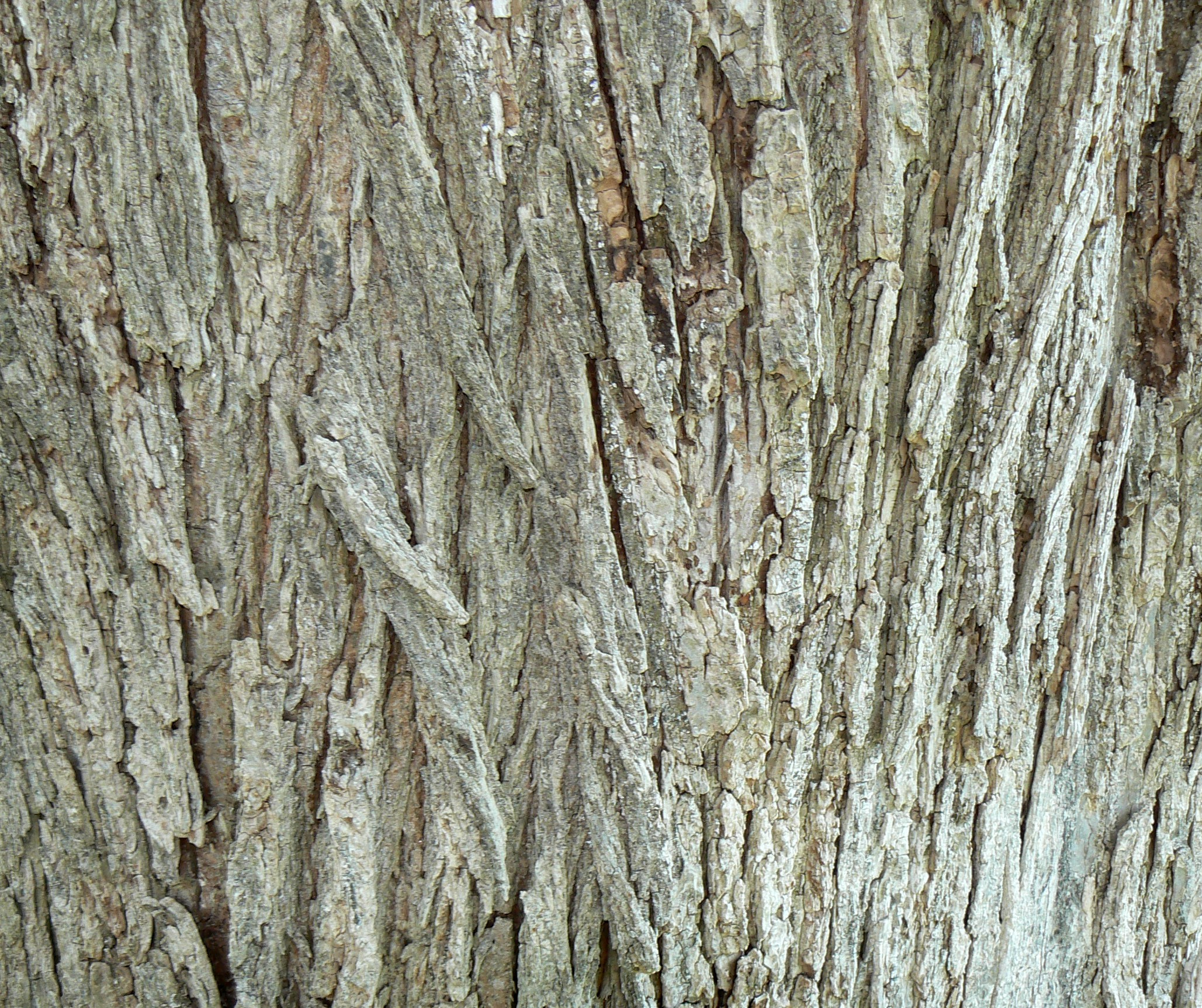 Siberian Elm (Ulmus pumila) bark at Arbor Lodge, Nebraska City, Nebraska, USA